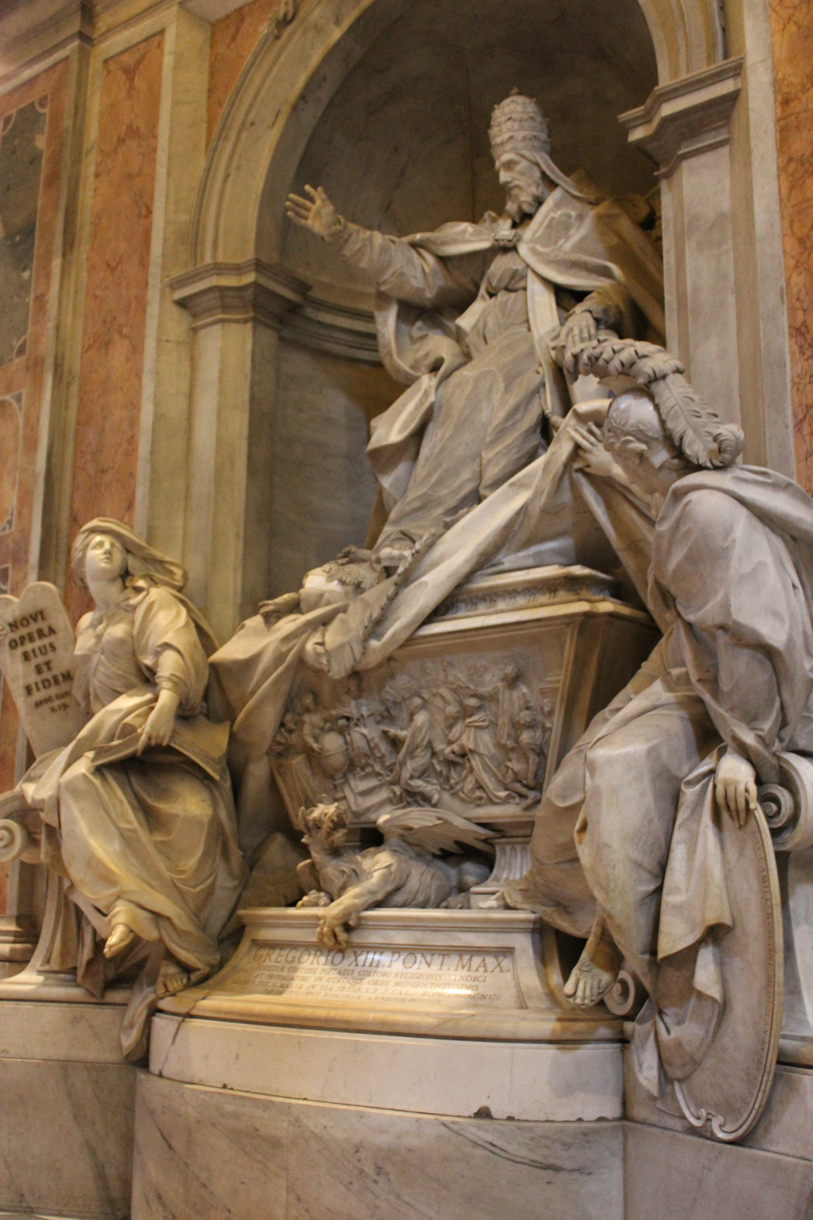 Camillo Rusconi (1658–1728). The tomb of Pope Gregory XIII for the St. Peter's Basilica, Vatican (1715–1723).